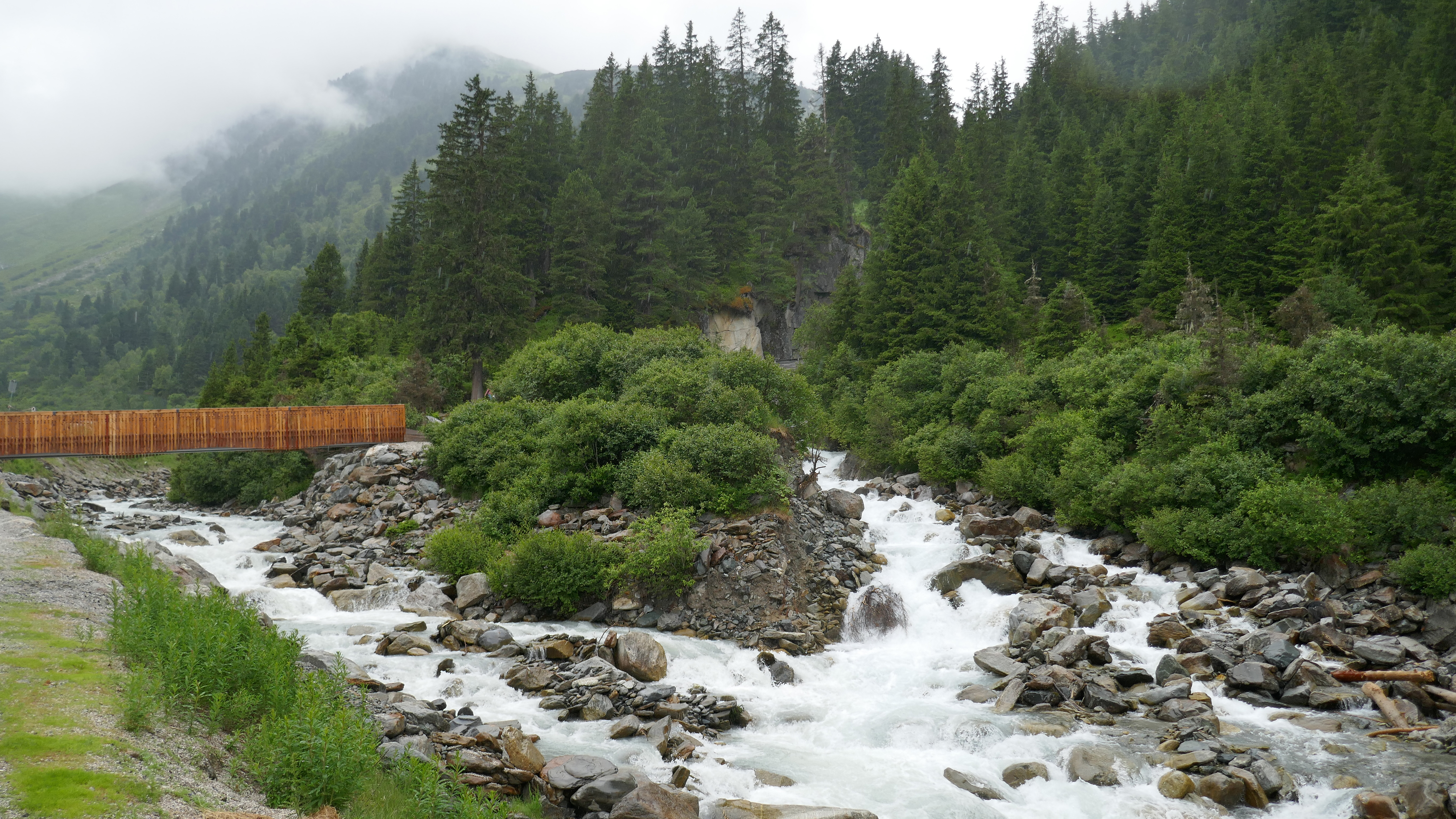 The confluence of Fernaubach (left) and Mutterbergbach (right) forms the Ruetz.